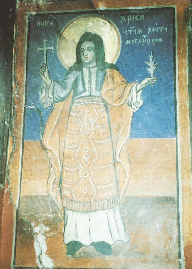 St. Zlata of Meglen fresco in Perikleia, Almopia